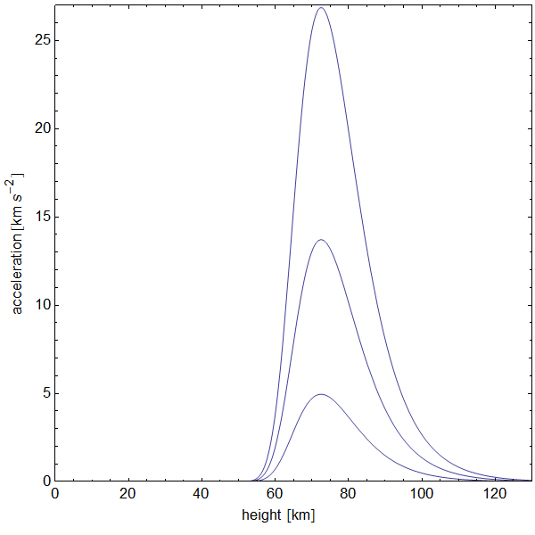 This diagram shows the acceleration of an idealized (spherical) meteoroid when entering the Earth's atmosphere at different initial velocities. As the density of the atmosphere increases in accord with the barometric formula, the meteoroid experiences more and more Newton drag. The initial velocities are 35, 25 and 15 km/s, where a higher peak corresponds to a higher initial velocity. An acceleration of 1 km/s² is about 100 g. The meteoroid considered here consists of iron. It has a volume of 1 cm³ and a mass of about 7.874 gramms.